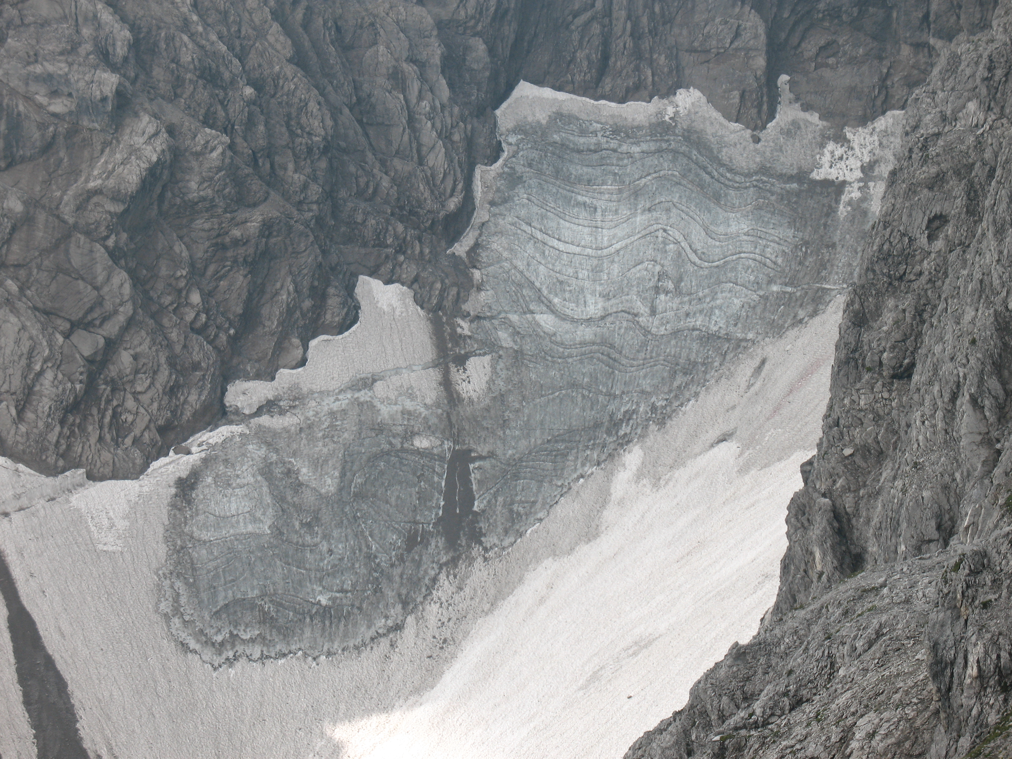 The glacier Hochgletscher in the northface of the Braunarlspitze (2649 m).